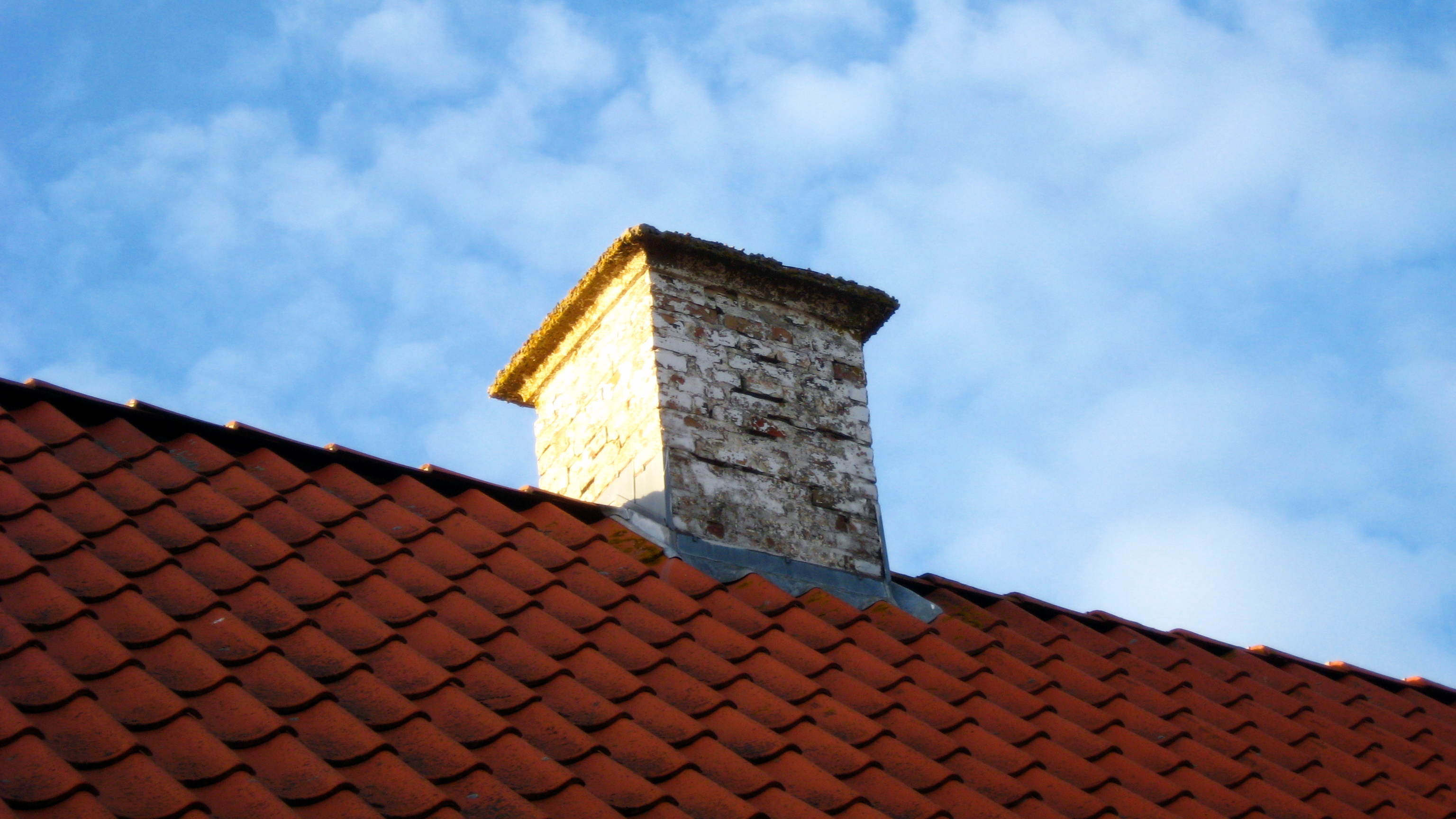 a chimney